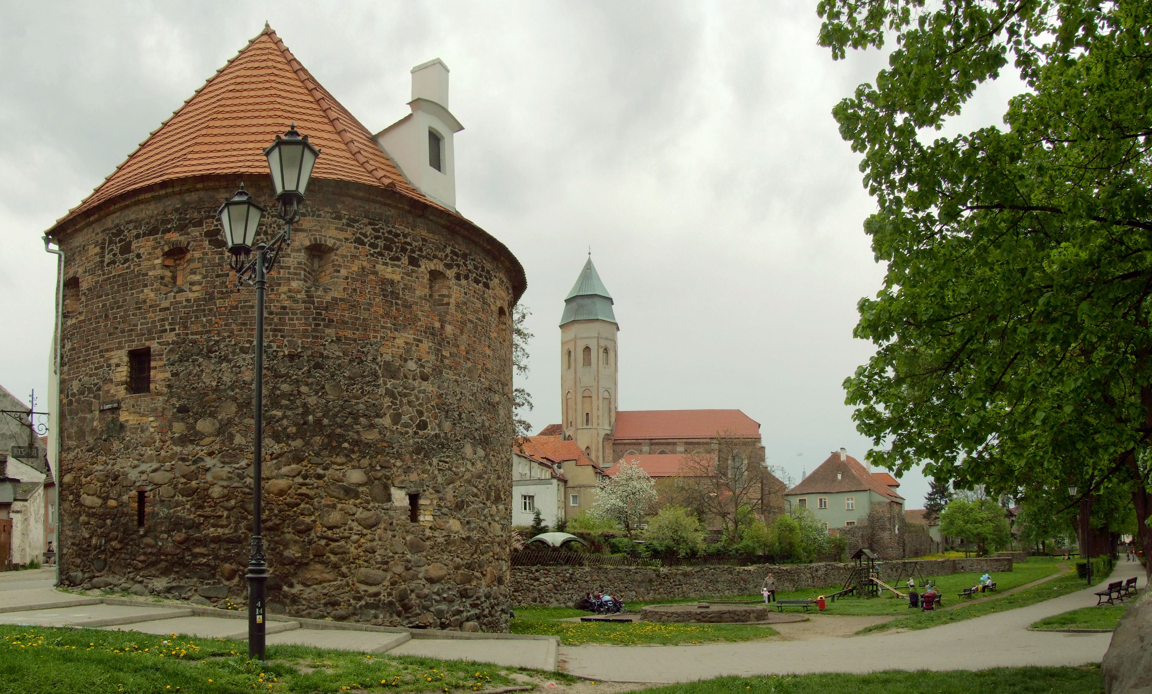 the panorama of an old part of Kożuchów